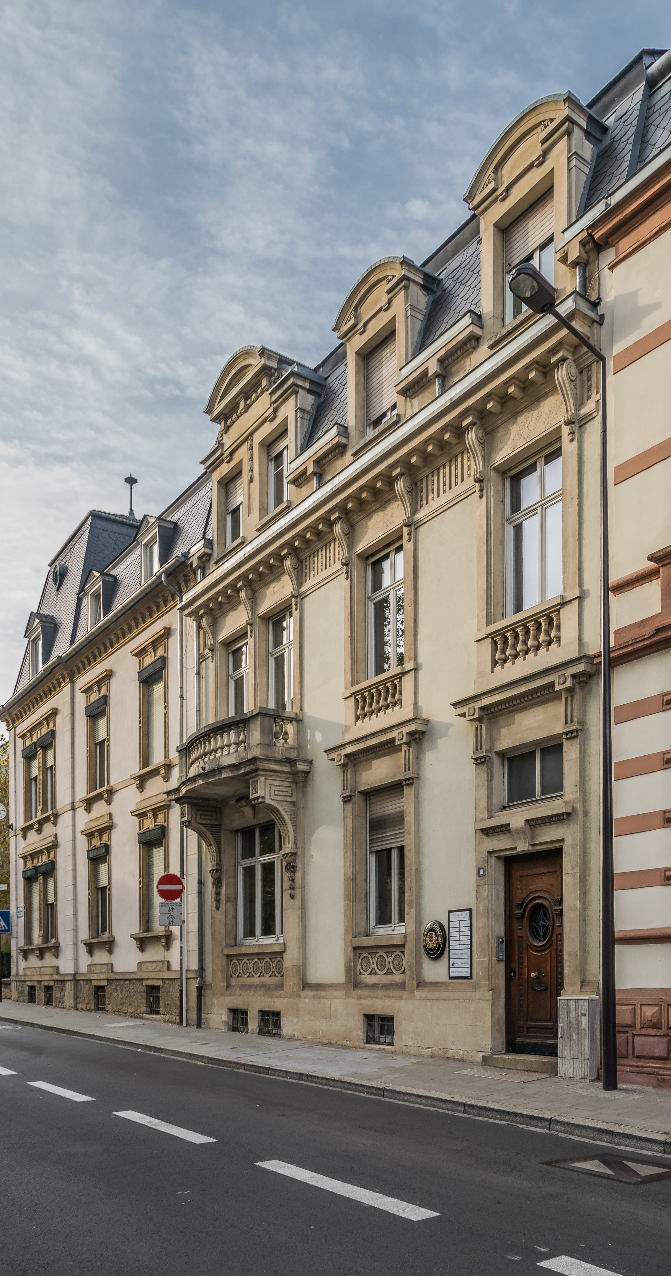 Building at 10 Rue Willy-Goergen in Luxembourg City, Luxembourg